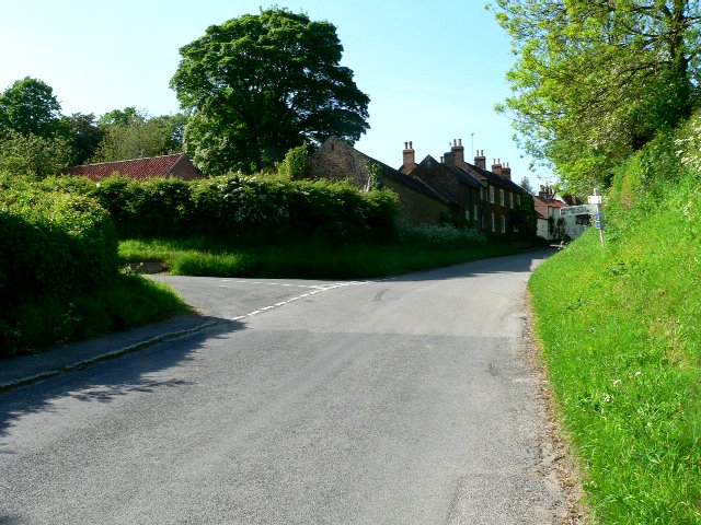 Kiplingcotes Junction, South Dalton, East Riding of Yorkshire, England.At the junction of the road to Kiplingcotes with Main Street, South Dalton. Kiplingcotes is best known for the historic Kiplingcotes Derby in which the second prize is more valuable than the first!